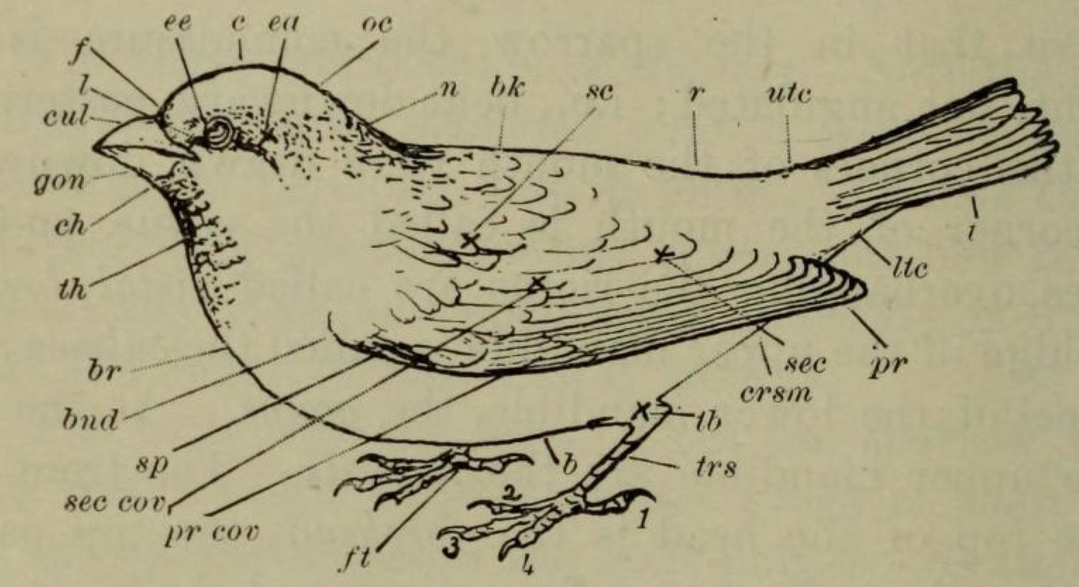 Diagram of the male House Sparrow's external anatomy.